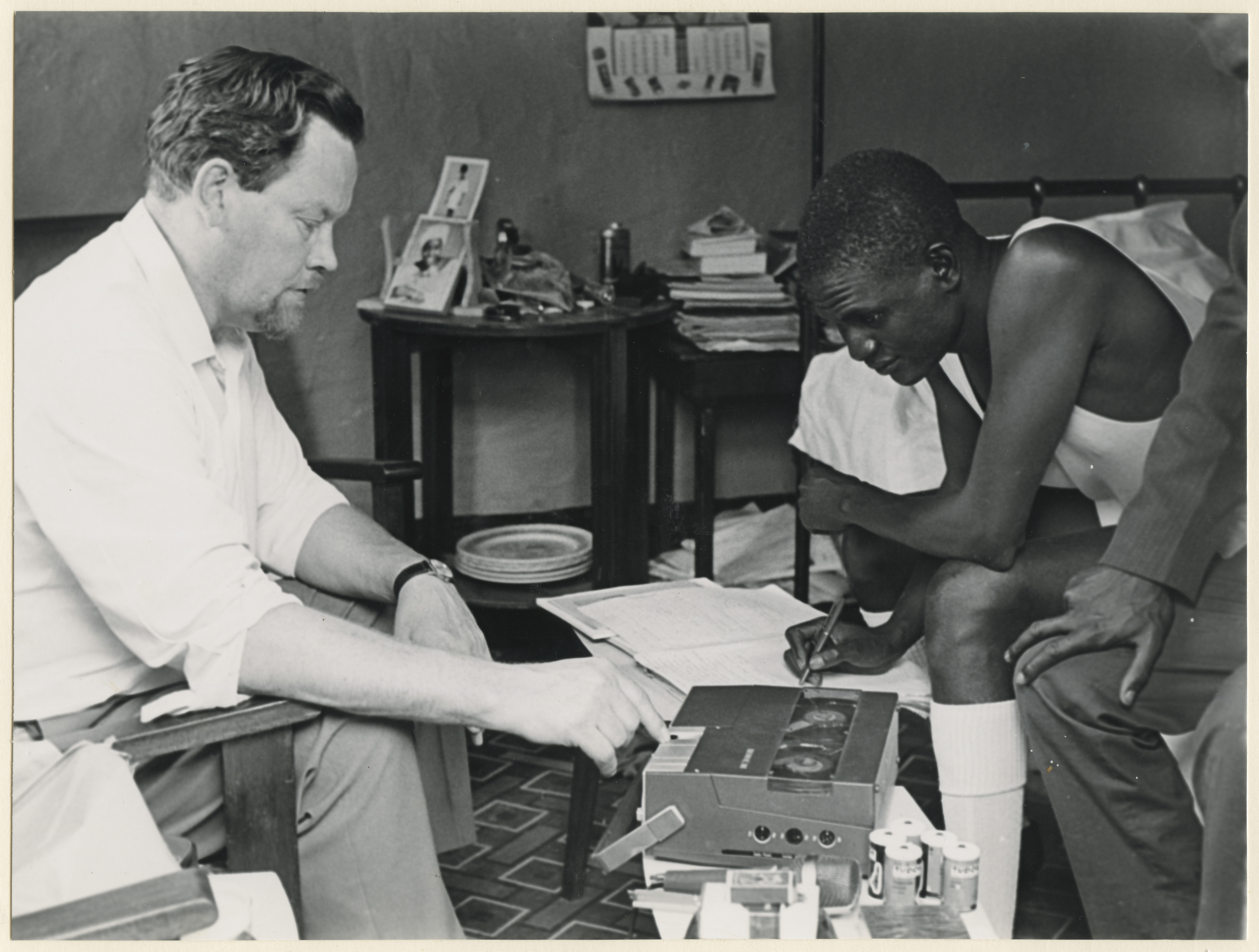 Swedish editor Erik Martinsson and interpreter Abu Dabo in Bathurst, Gambia, during translation of recorded songs.